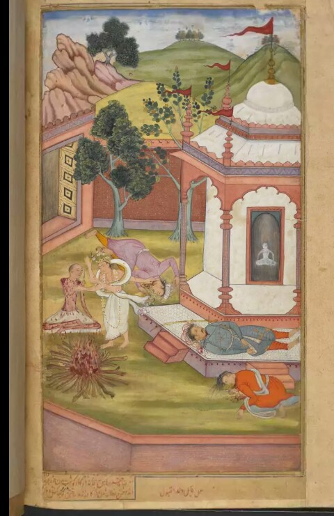 Aswamedhikaparwa